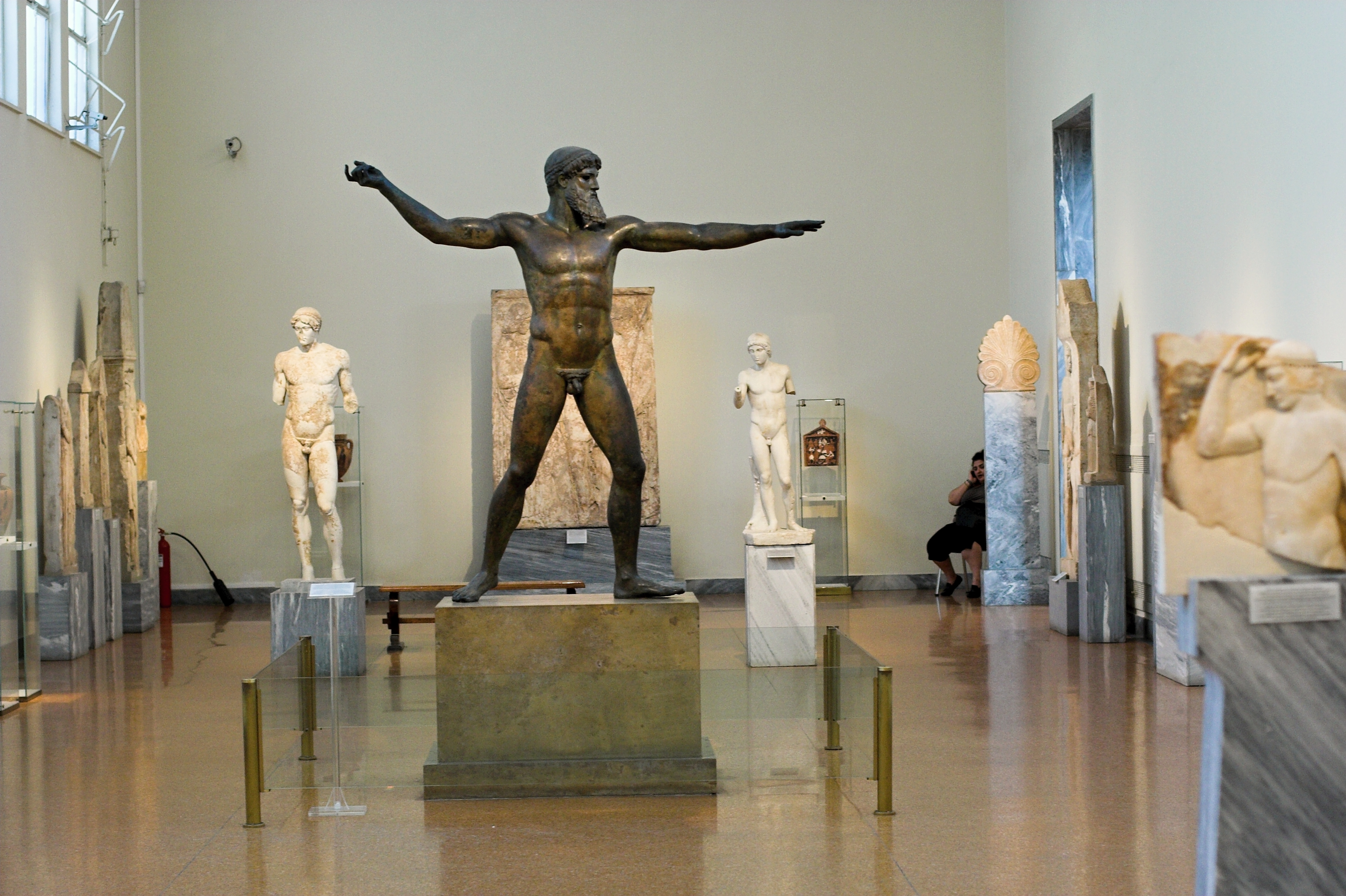 The first hall of classical sculptures (room 15) is dominated by a giant bronze Zeus or Poseidon, "God from Cape Artemision." National Archaeological Museum of Athens.